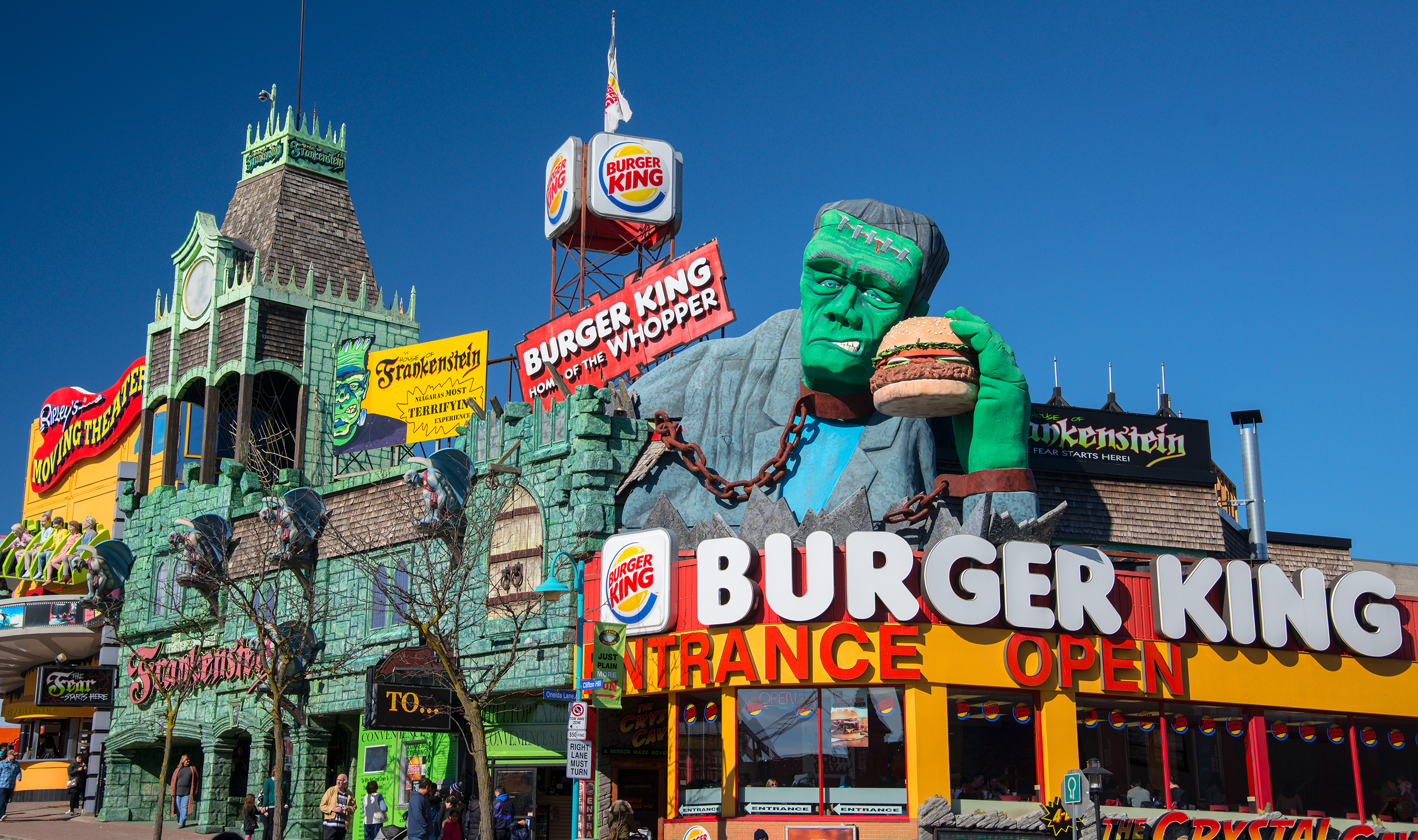 Clifton Hill, Niagara Falls attractions, Feb. 2017